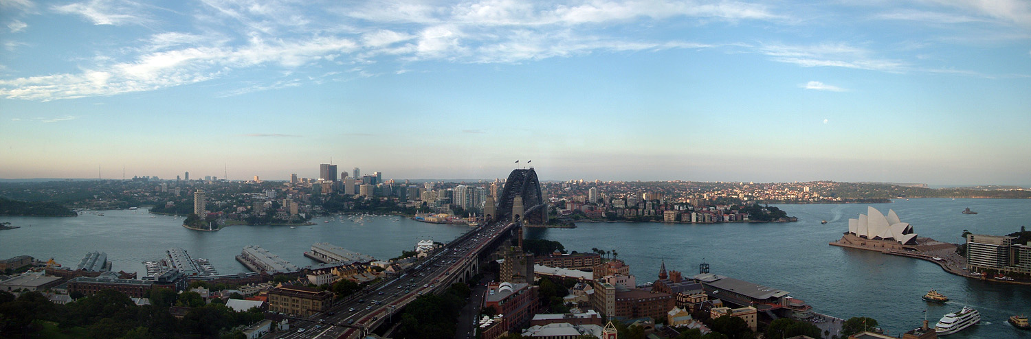 A panorama of Sydney Harbour during the day, with the Sydney Harbour Bridge in the background.